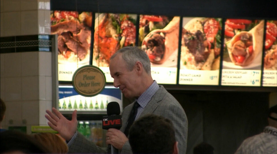 CBC Live event at Sherway Gardens.